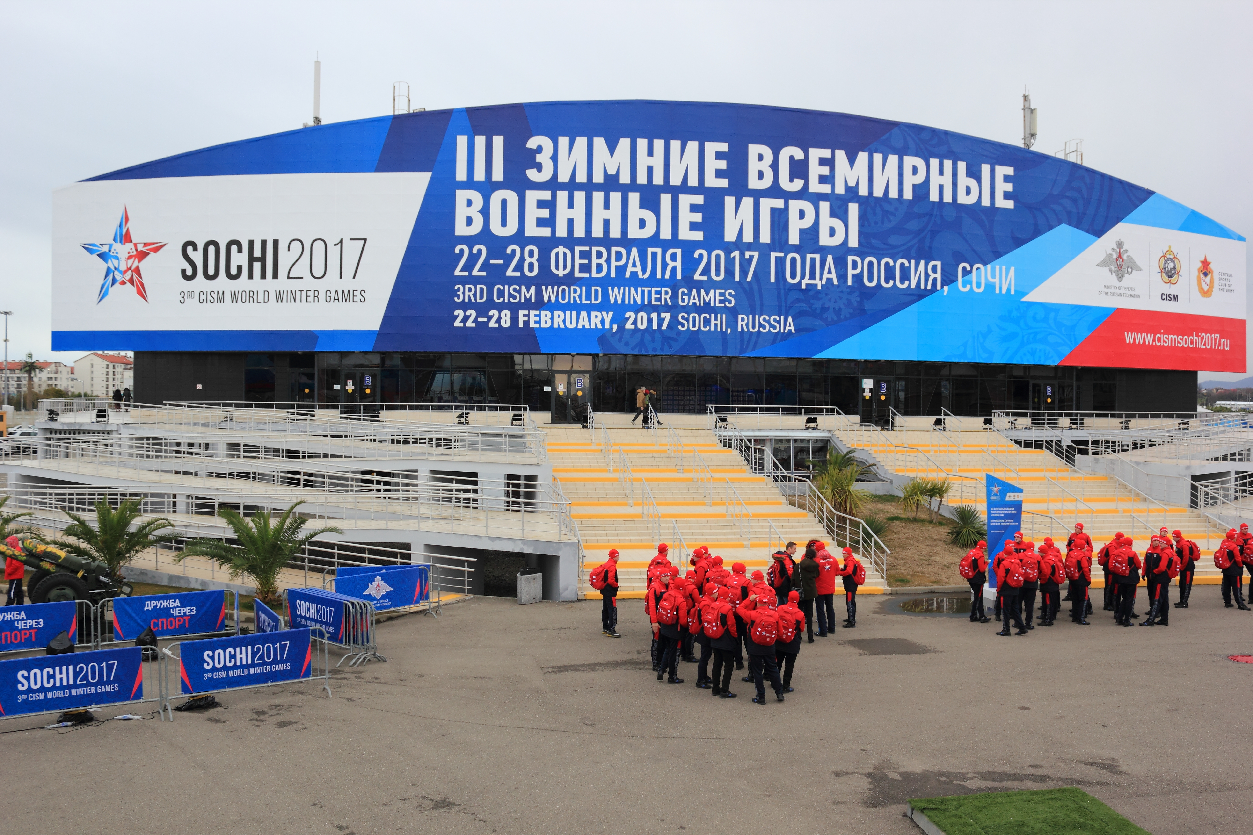 3rd CISM World Winter Games 2017 in Sochi. Ice Cube Multifunctional Sport Arena